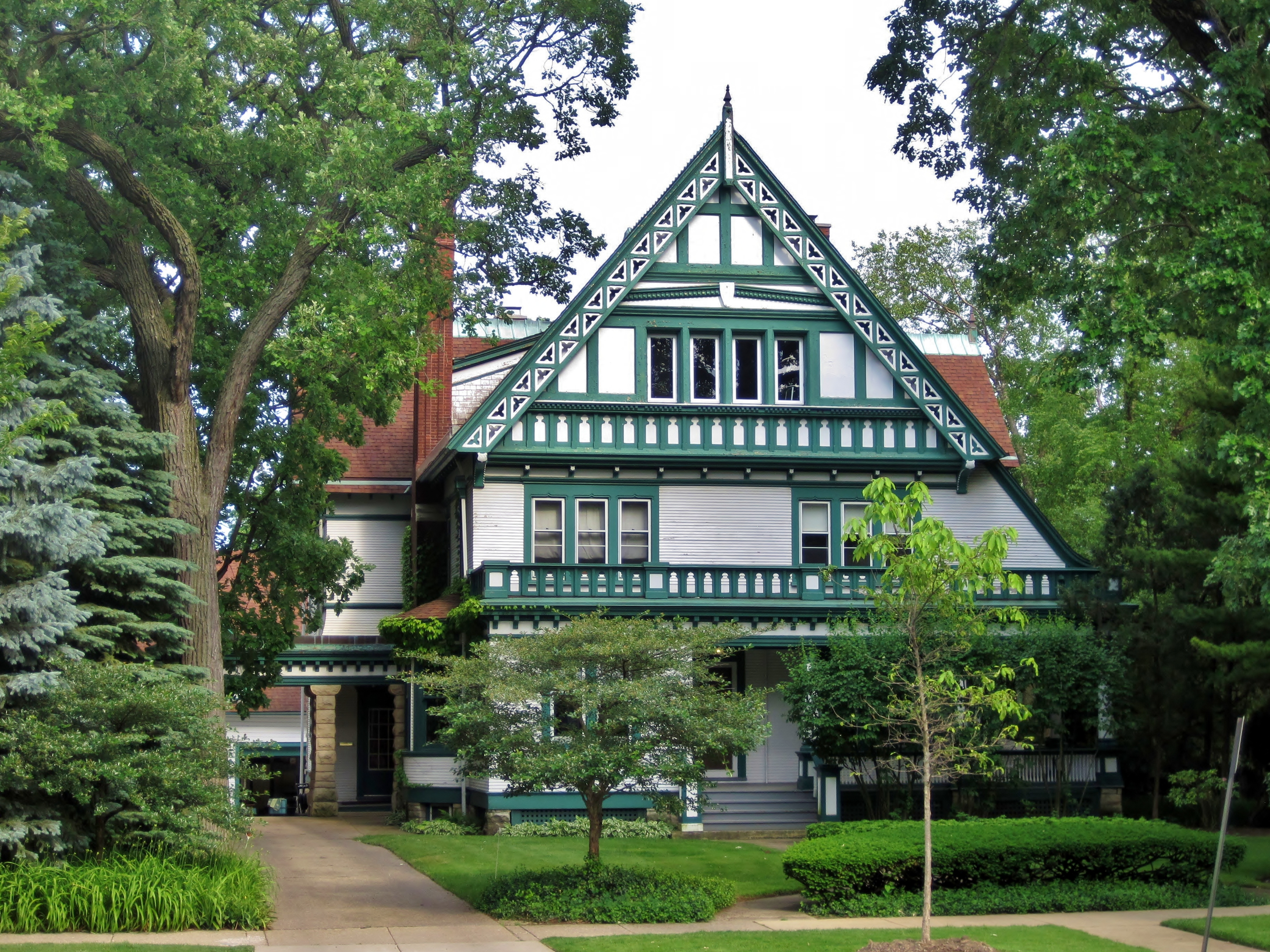 Residence of H.H.C. Miller, former mayor of Evanston, Illinois, in the Evanston Lakeshore Historic District.